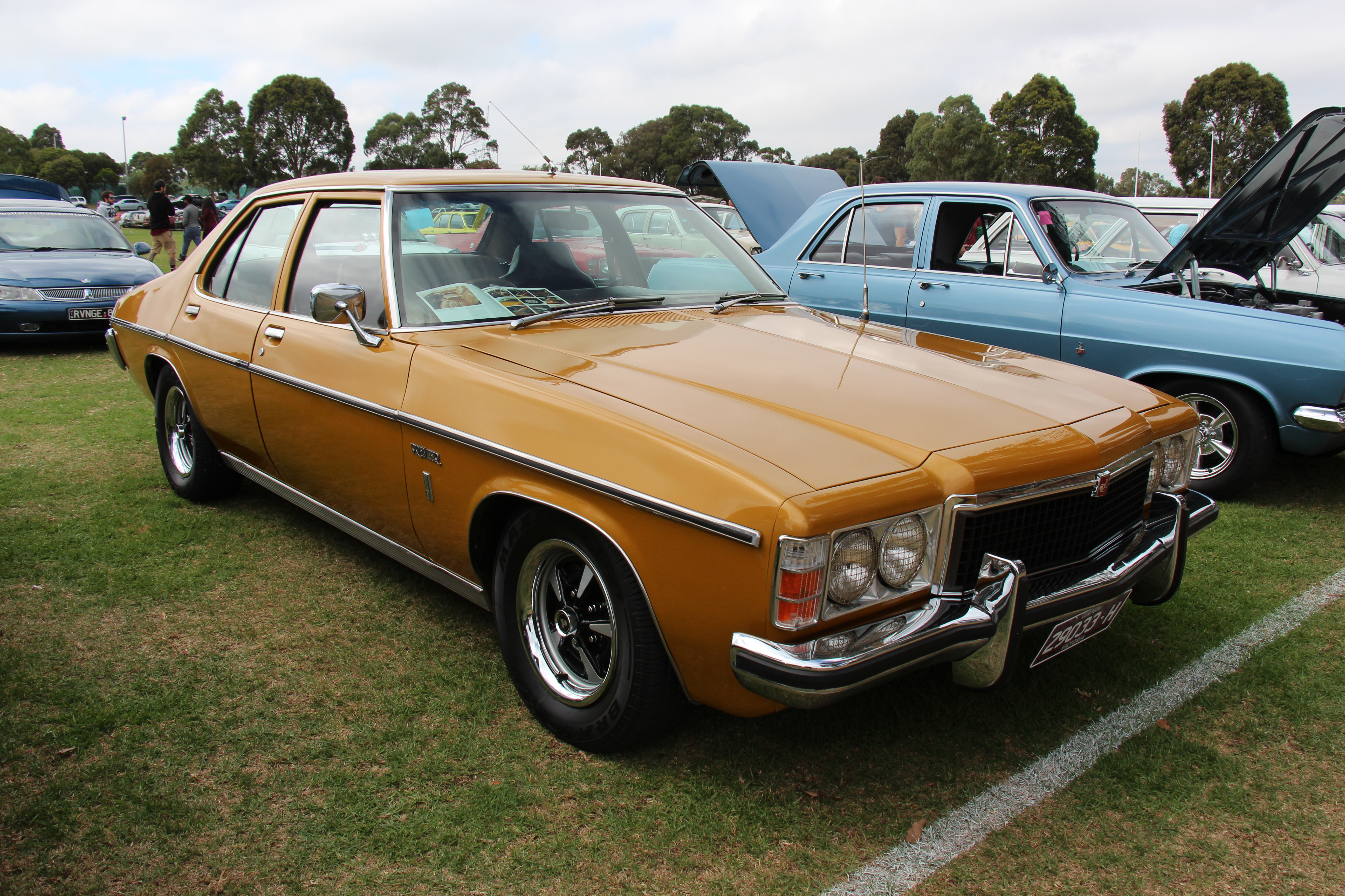 Holden HZ Premier Sedan